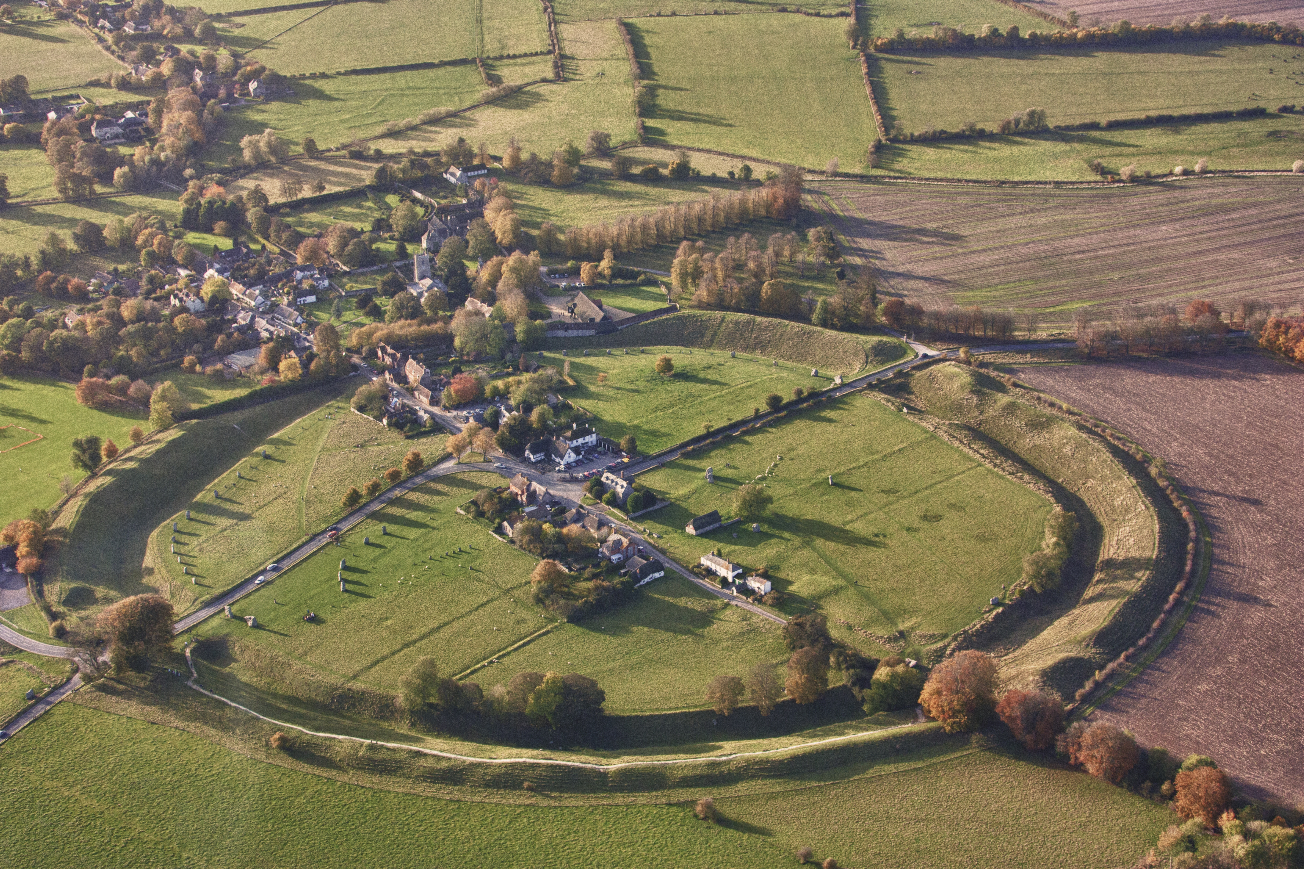 Avebury henge and stone circles Wikidata has entry Q17662386 with data related to this item.